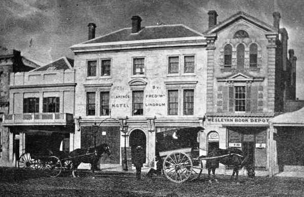 Buildings on King William Street between Grenfell and Pirie